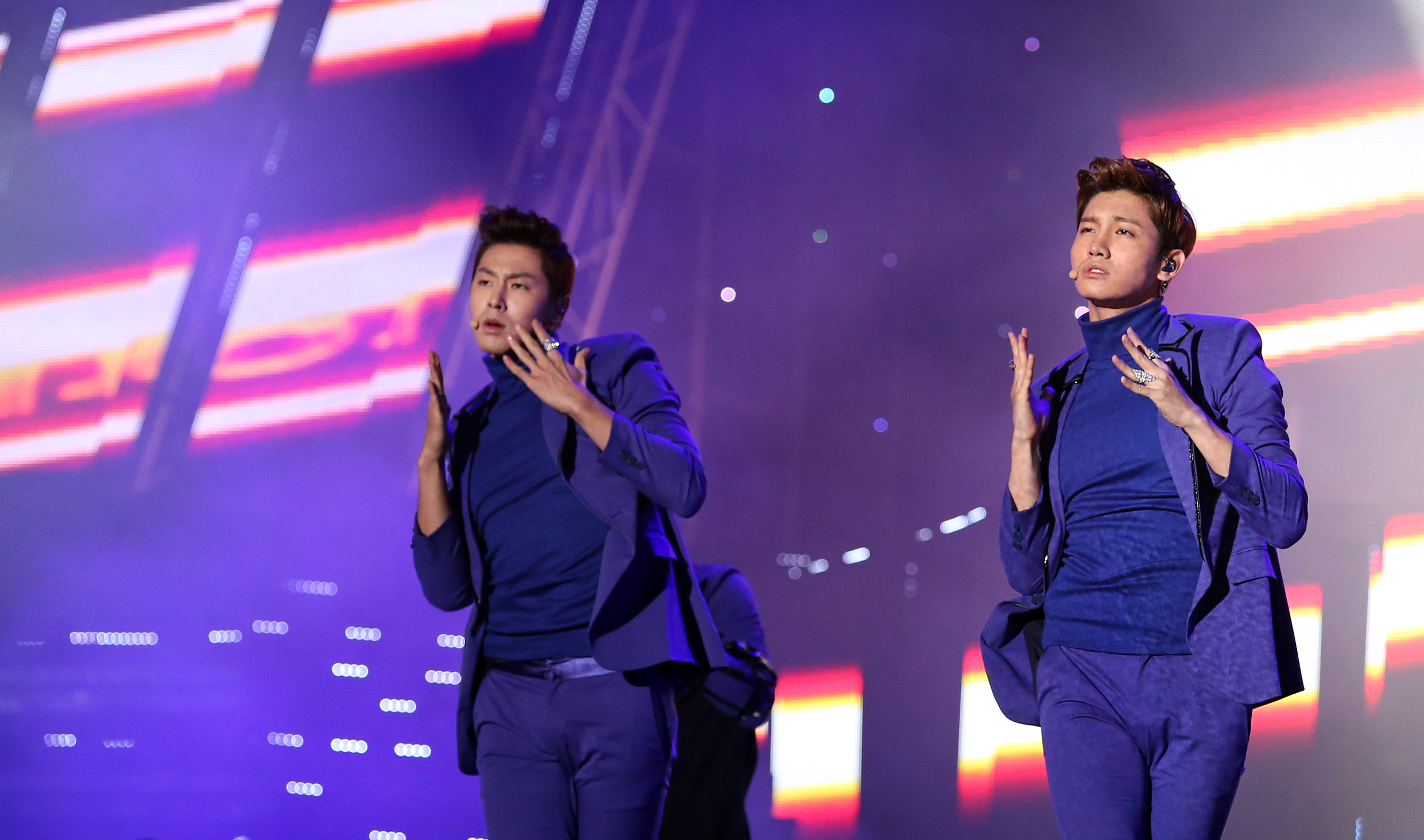 2012 K-POP World Festival Special Performance by TVXQ Changwon, Korea 2012.10.28. Ministry of Culture, Sports and Tourism Korean Culture and Information Service Jeon Han 2012 K-POP 월드 페스티벌 동방신기 東方神起 축하공연 경상남도 창원시 문화체육관광부 해외문화홍보원 코리아넷 전한